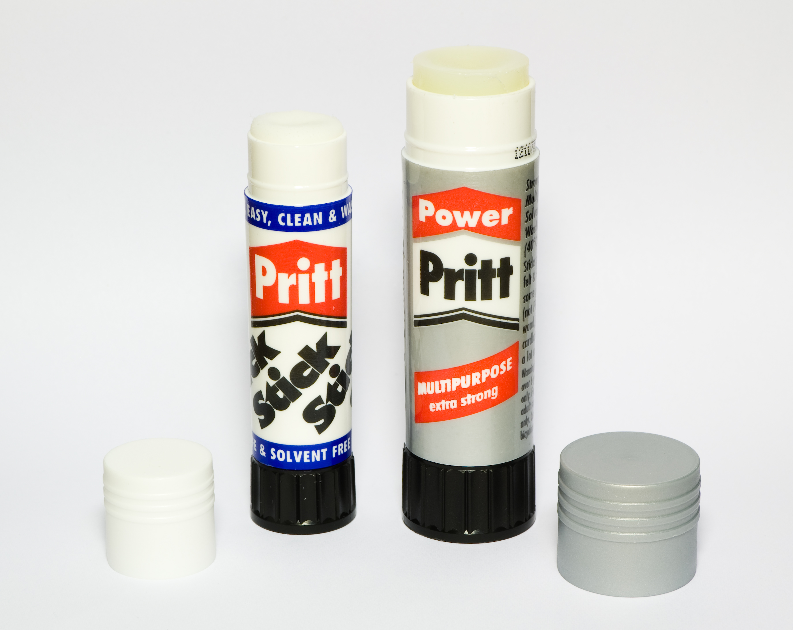 Image of standard Pritt Stick, and Power Stick.